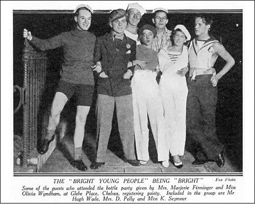 Hugh Armigel Wade